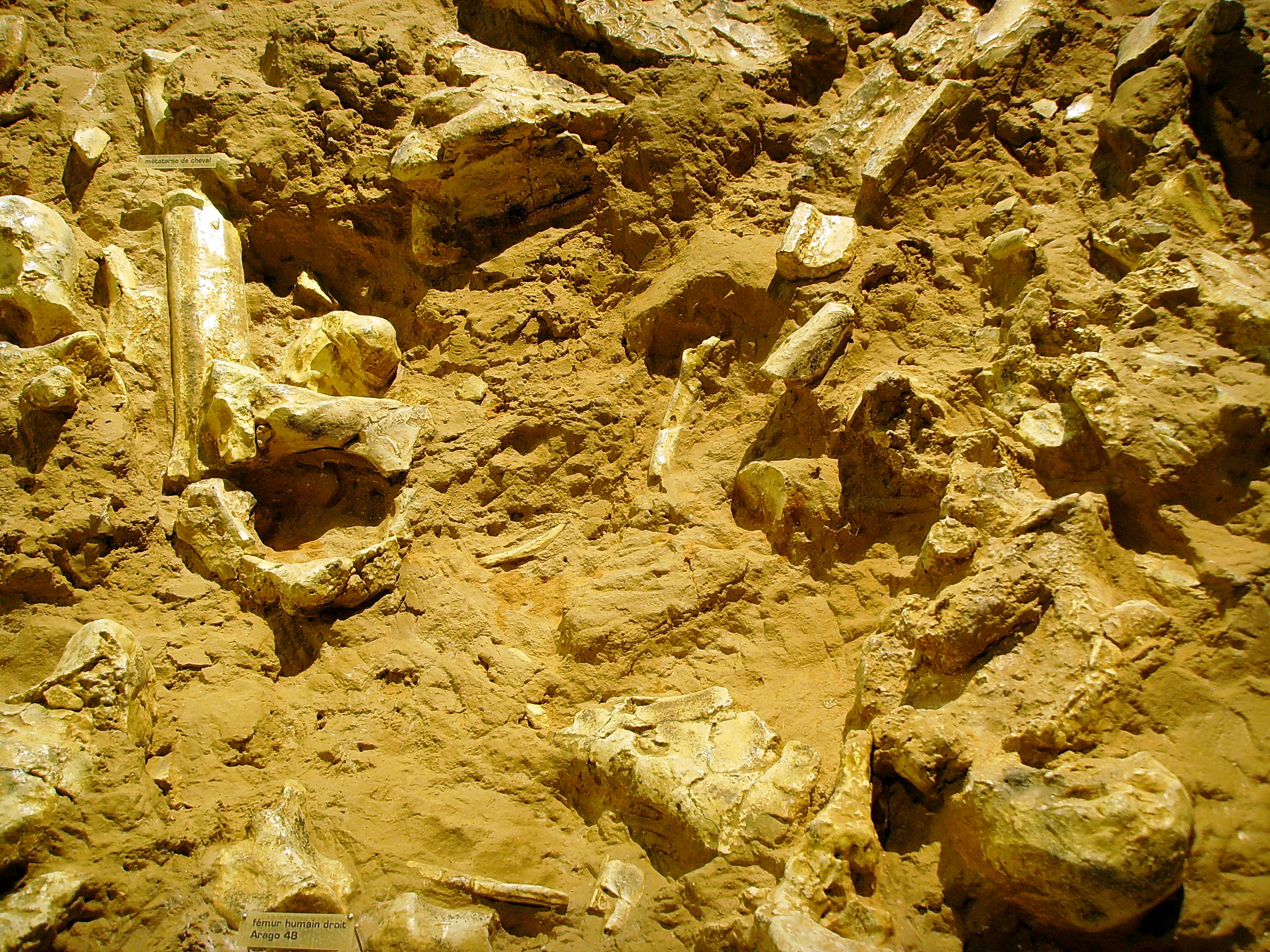 Arago-cave, near Tautavel (Perpignan-region), France: archaeological context of finds as displayed in the Musée de Préhistoire, Tautavel